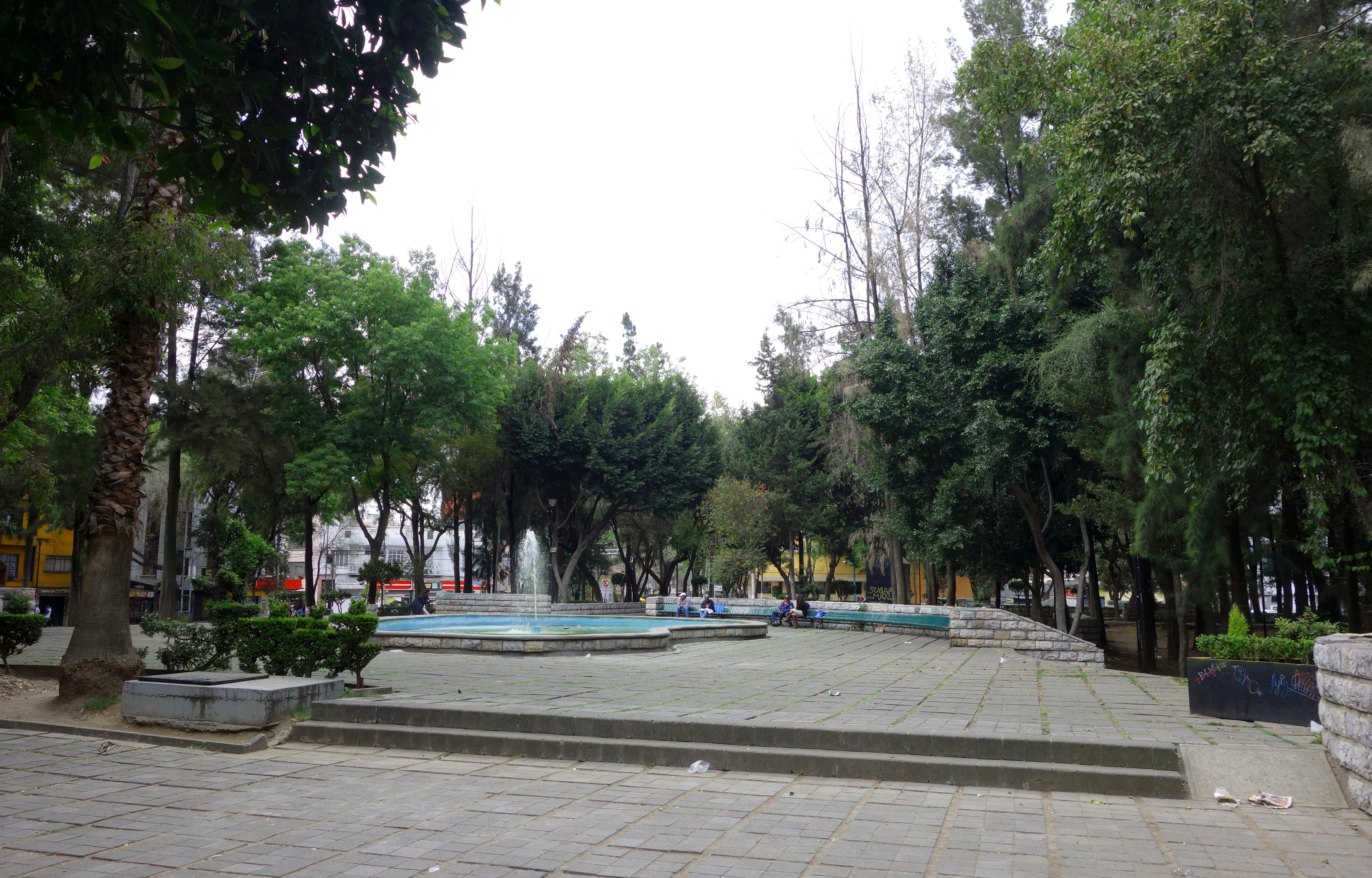 Jardín Dr. Ignacio Chávez in Mexico City